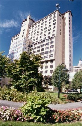 Photo taken by Alice Jabob of Isabella's buildings in 2004.